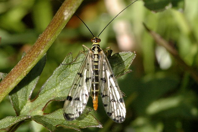 Panorpa germanica, female.Picture taken in Commanster, Belgian High Ardennes.